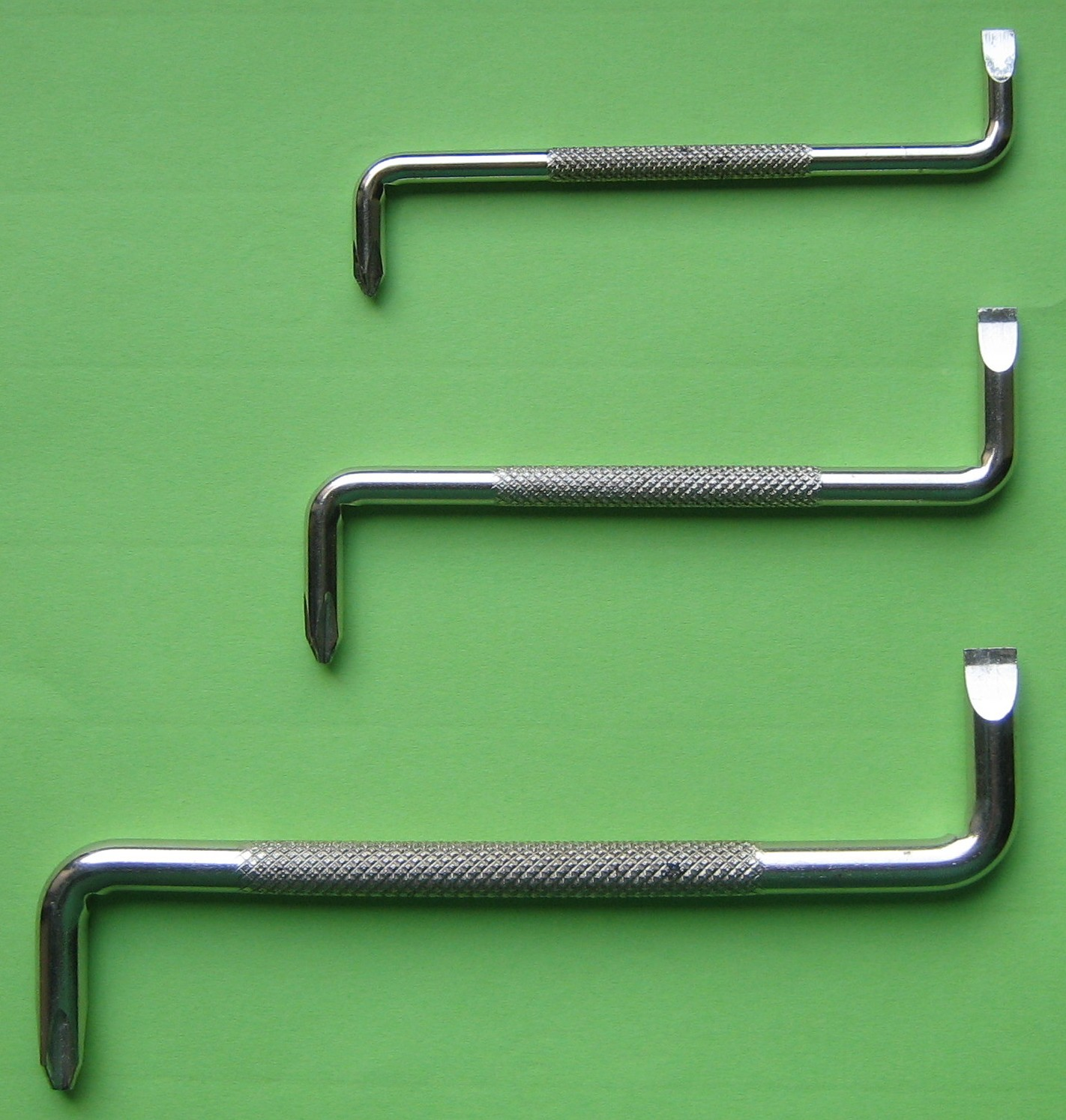 Angle screwdrivers